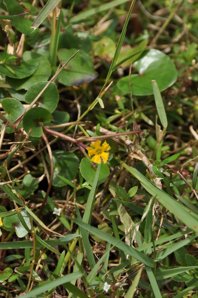 Nymphoides aurantiaca in Thailand (15 May 2000). Credit: R. Pooma.